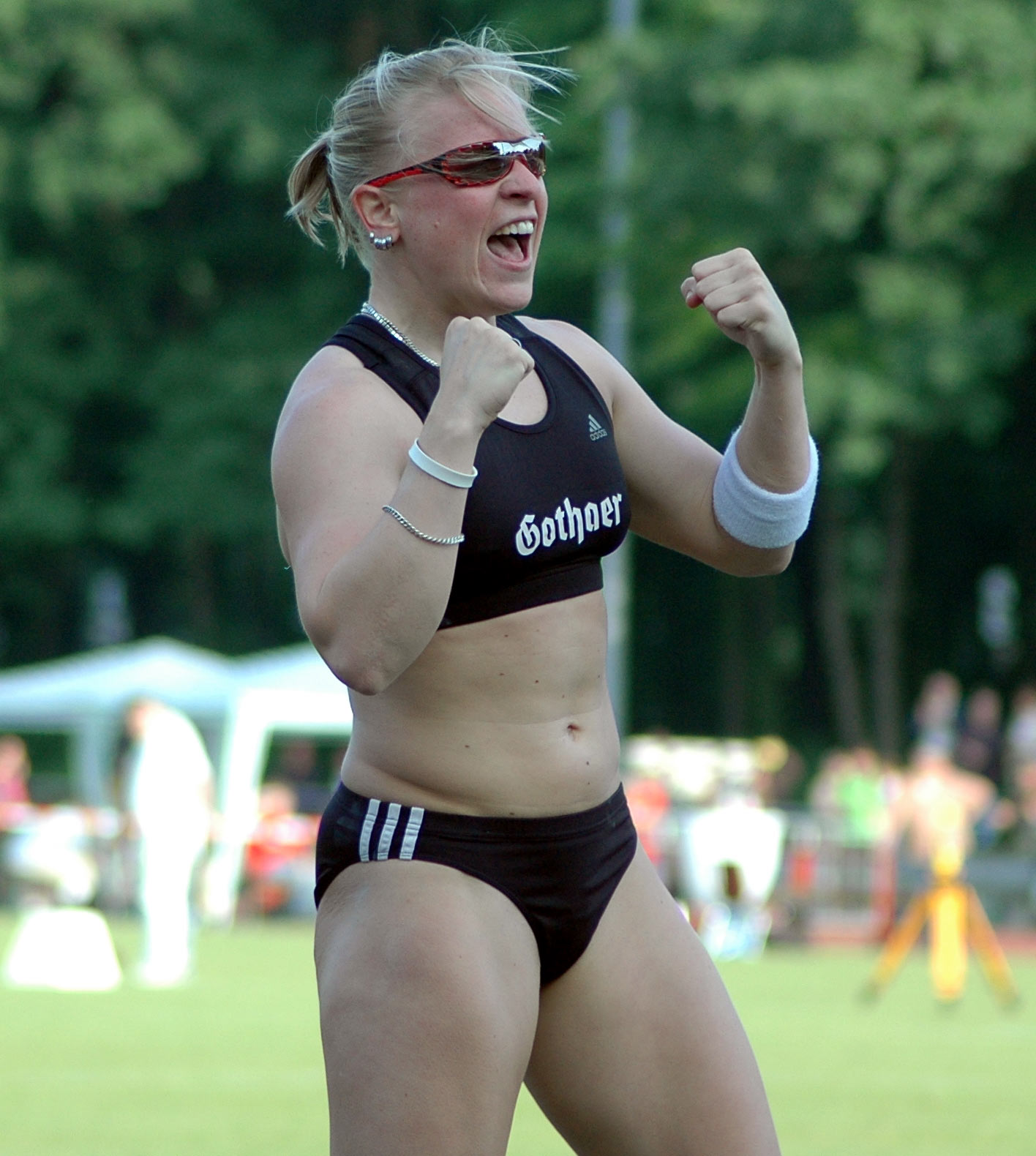 Martina Strutz after her jump over 4,50 Meter